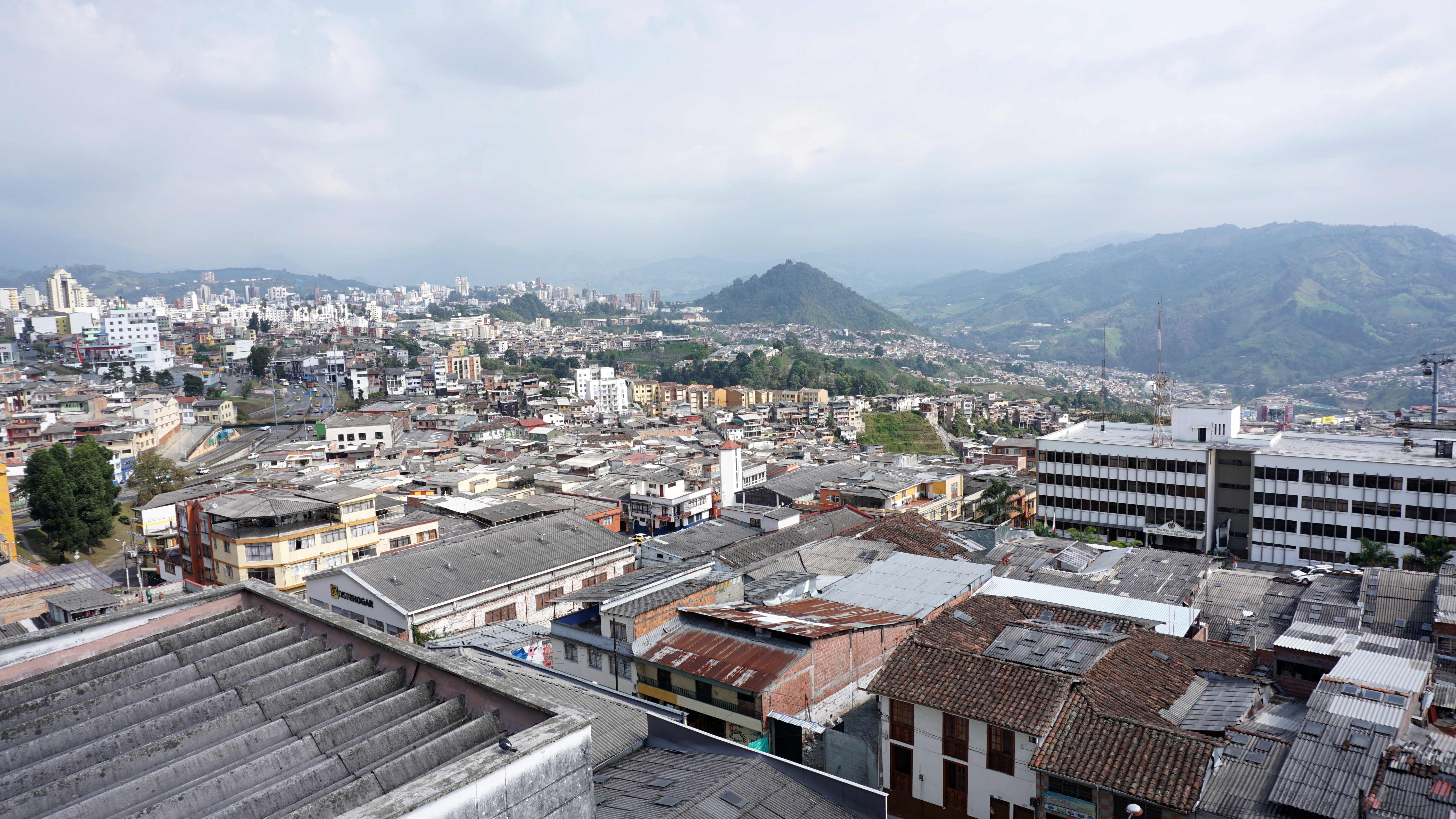 Manizales at day, seen from station Fundadores